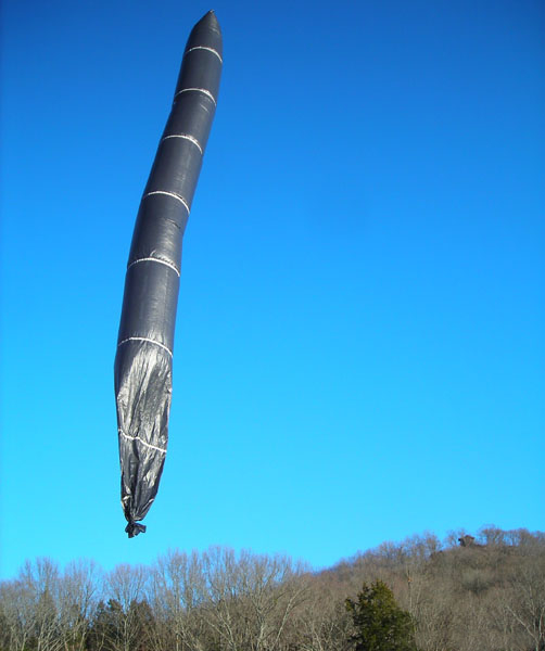 Photo by Catman, Webmaster